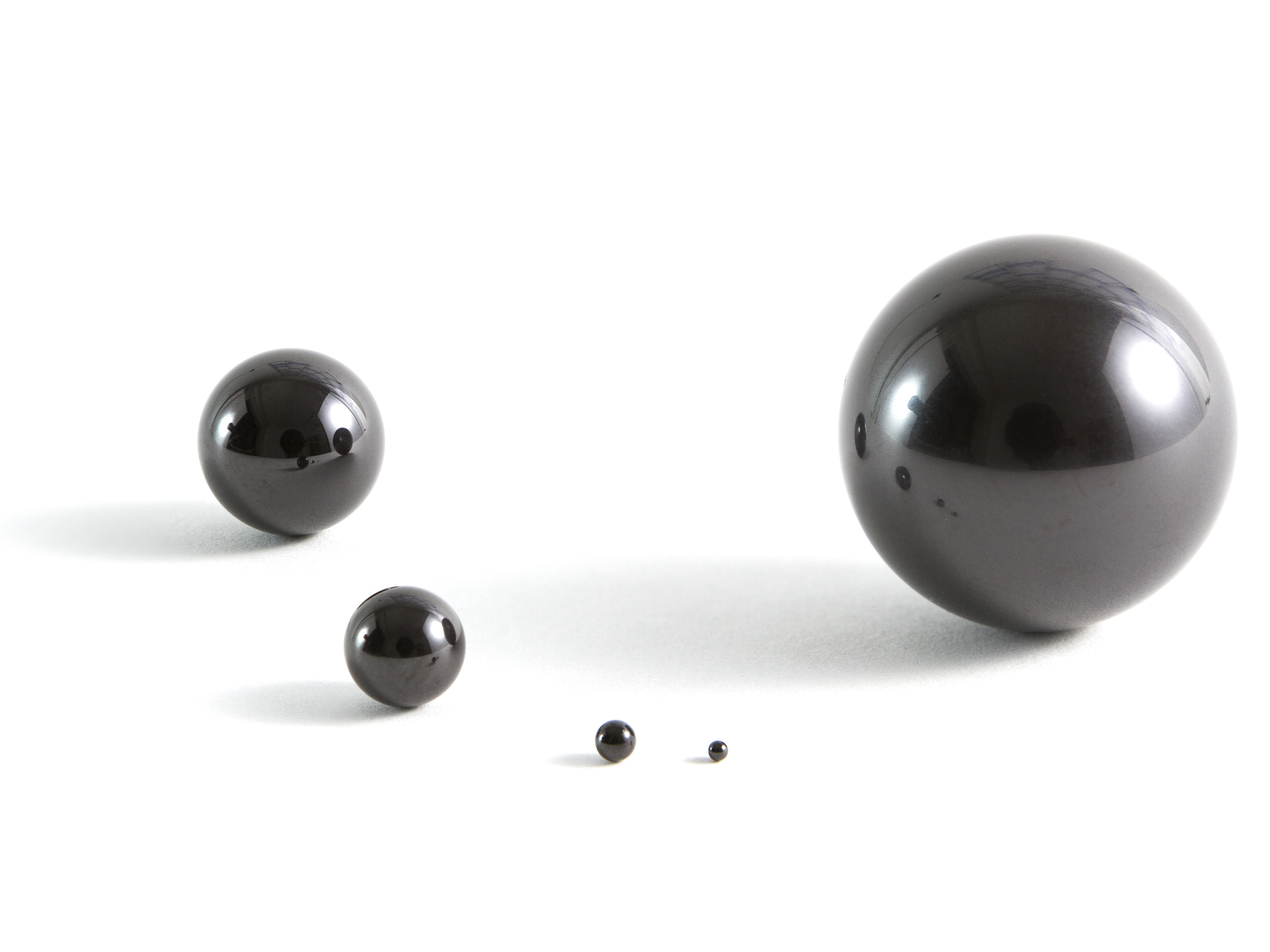 Different bearing balls made of silicon nitride in diameters ranging from 1 to 20mm, Grade 5 to 28 (DIN 5401).